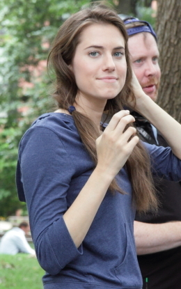 Allison Williams was giving an interview after the filming of Girls in Washington Square Park, Greenwich Village, New York